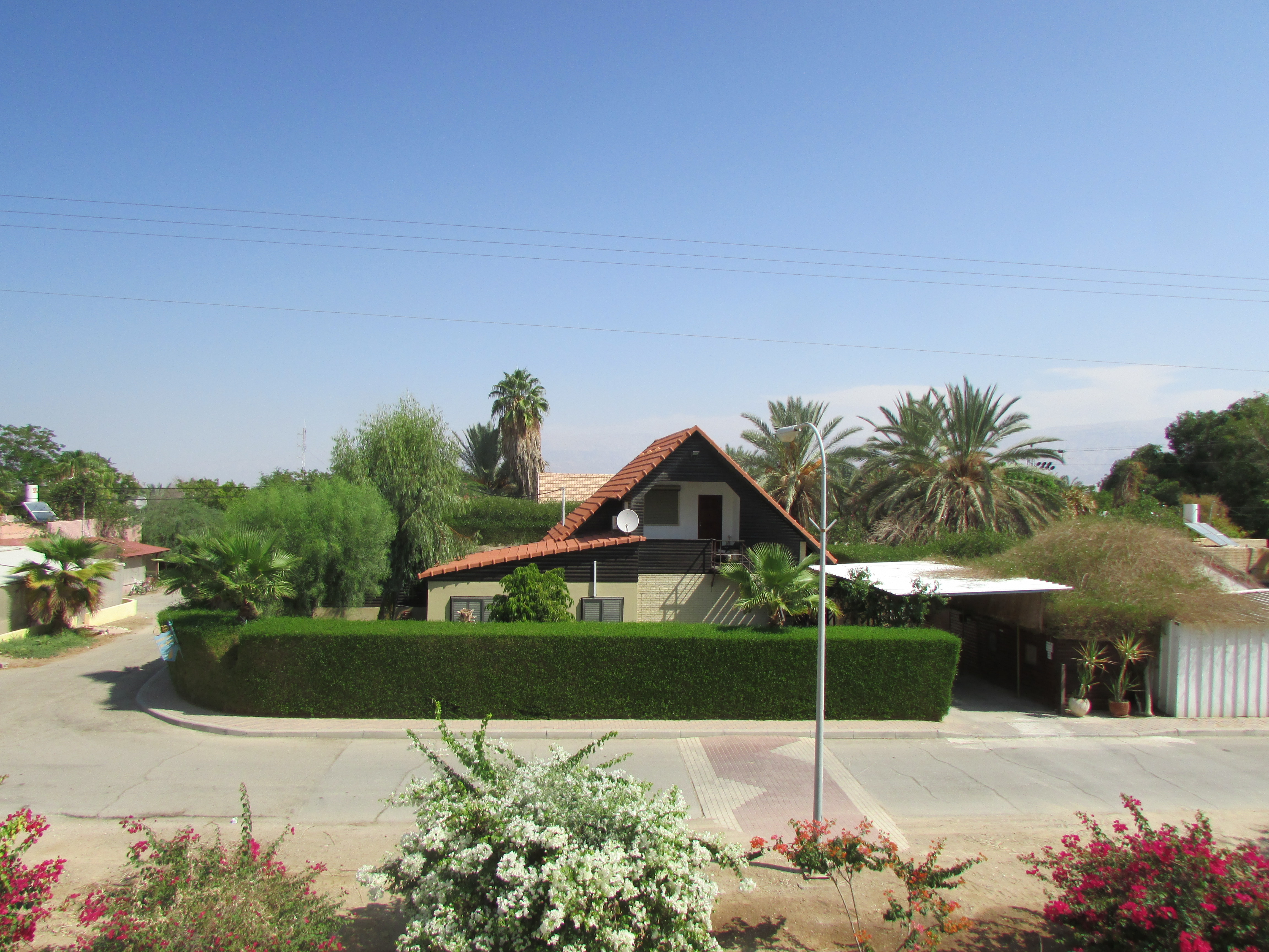 Neot Hakikar